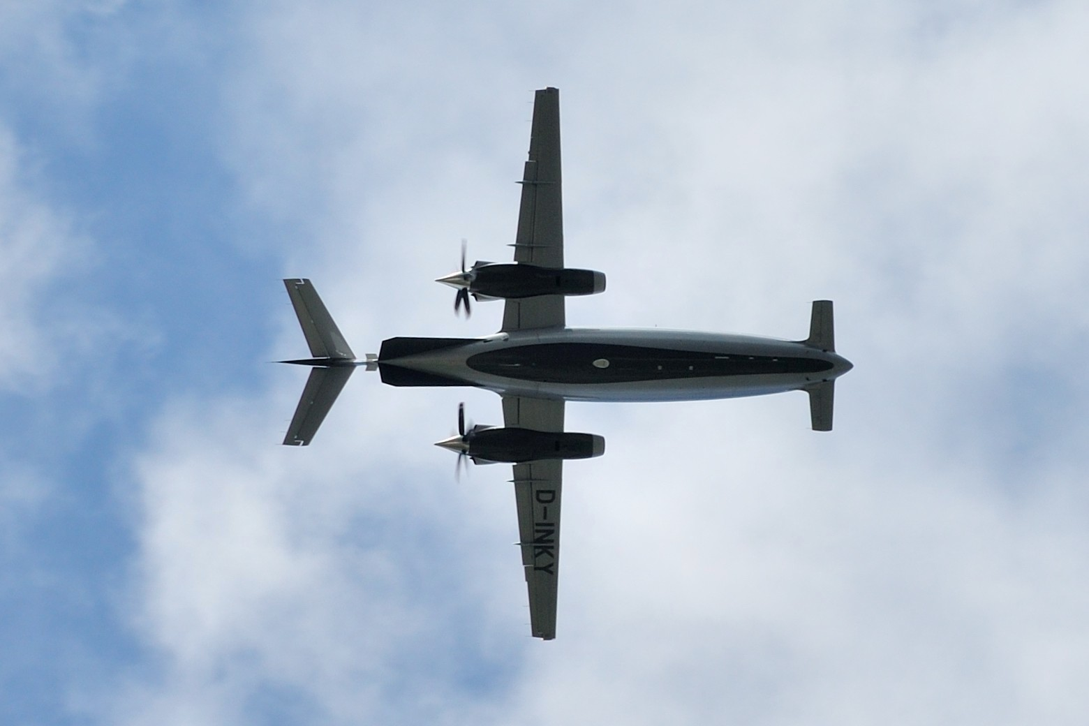 Switzerland, Canton of Zürich, Piaggio P-180 Avanti at Zurich International Airport